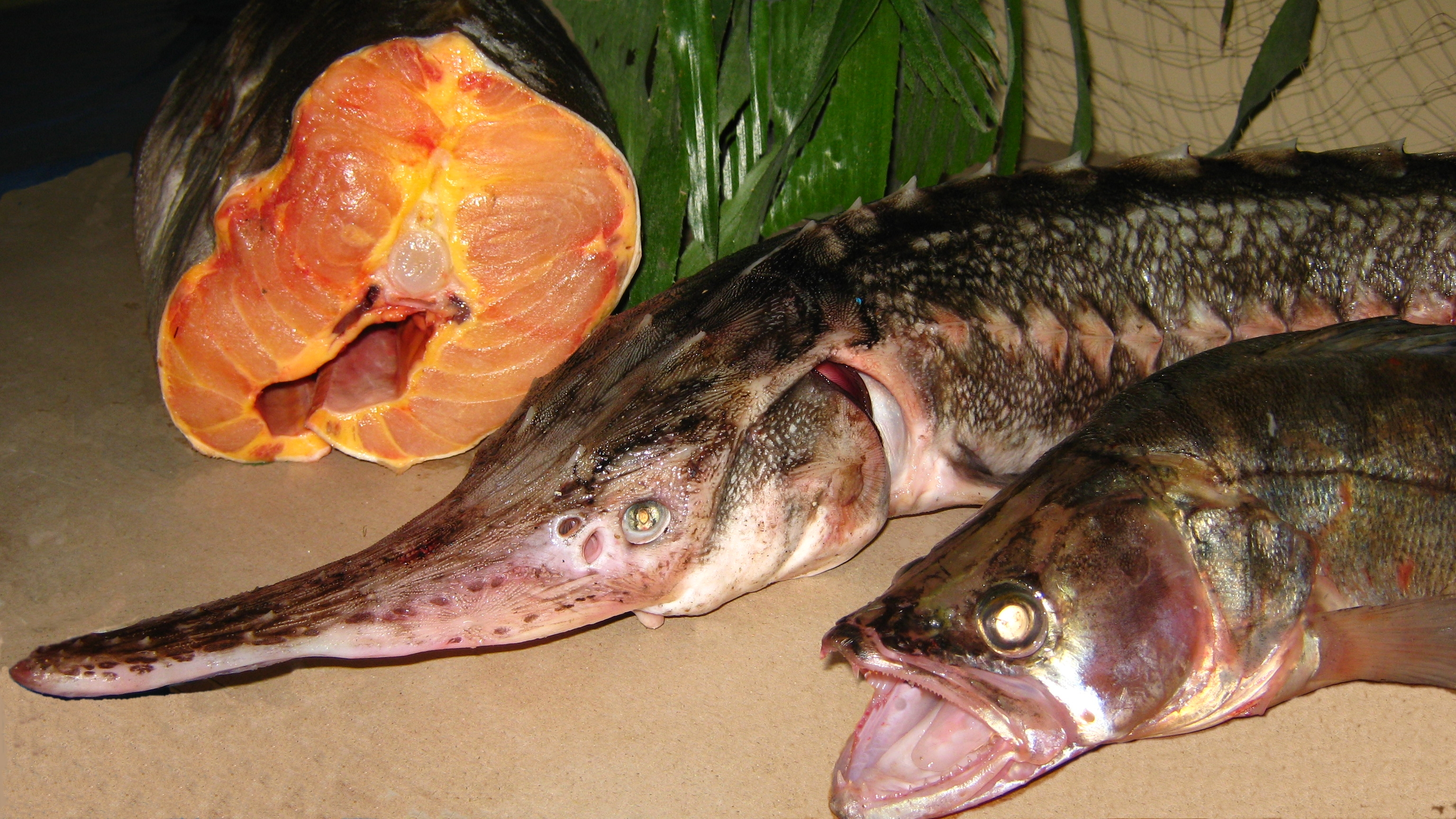 Salyan